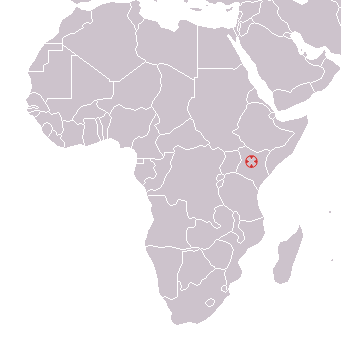 Location of a fossil of Australopithecus anamensis in Kenya.